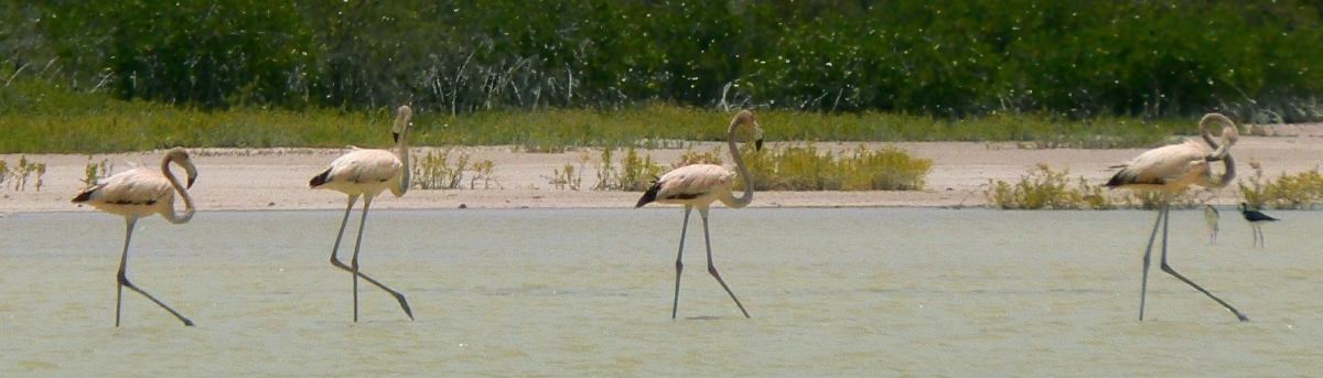 Caribbean Flamingos Phoenicopterus ruber, group of immature birds, along shore of Lago de Oviedo, Dominican Republic.